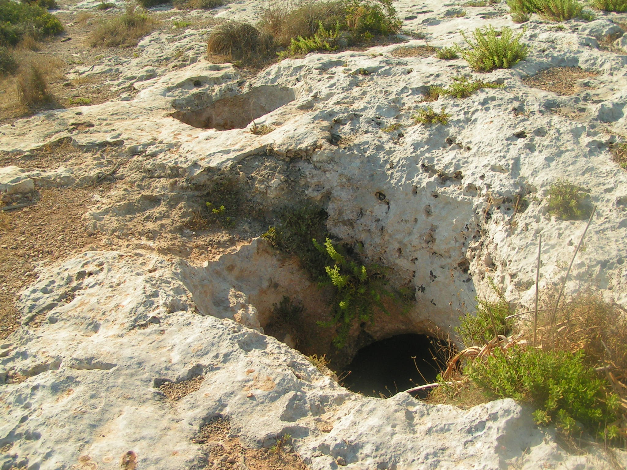 Neolithic Tombs 1,2 This media is about Maltese cultural property with inventory number 00028.